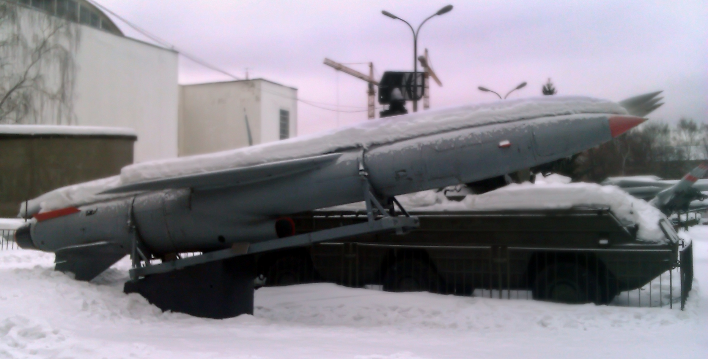 A Soviet anti-ship cruise missile P-5 on display at the Central Armed Forces Museum (Moscow).